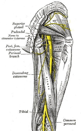 Nerves of the right lower extremity Posterior view.